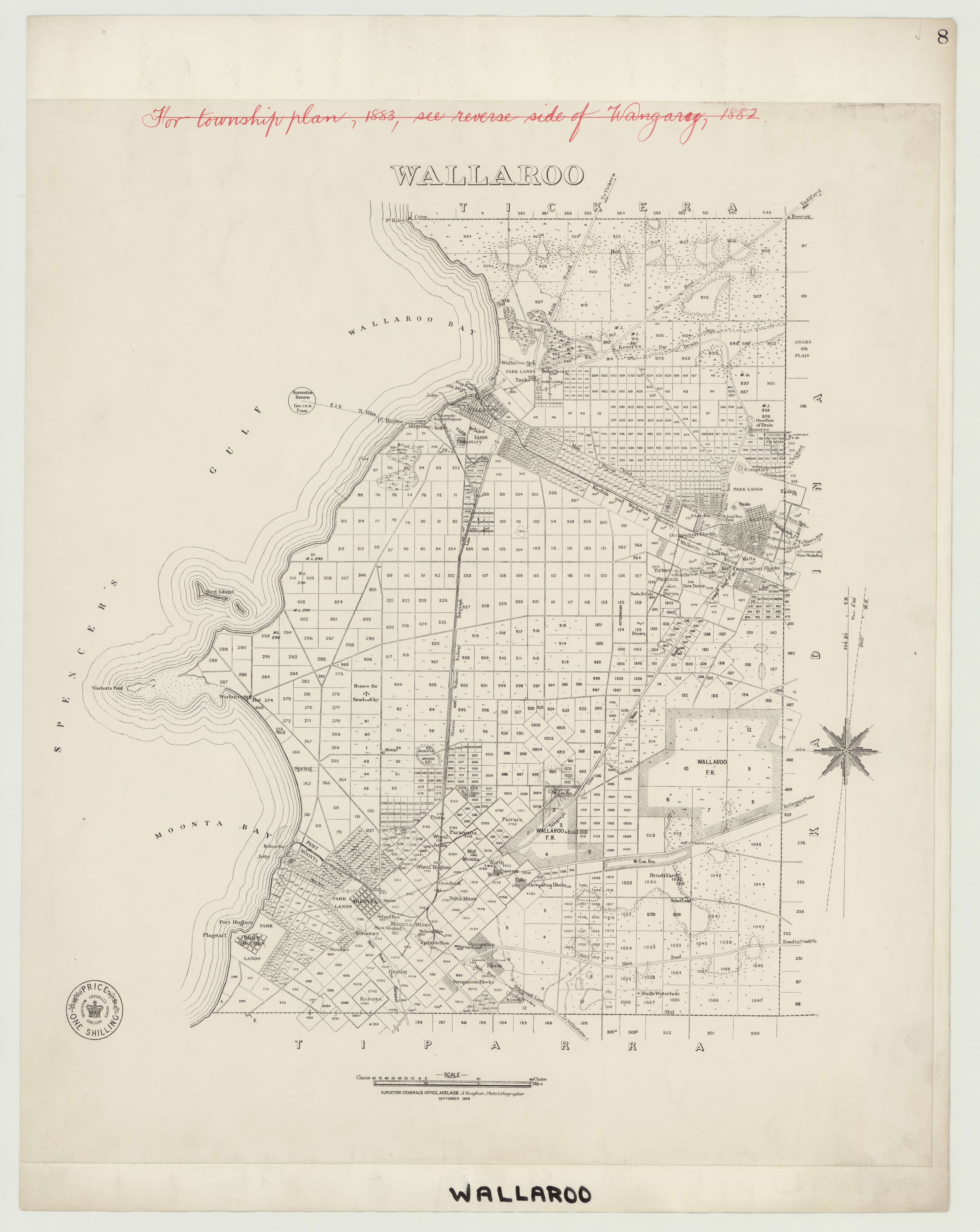 Plan of the Hundred of Wallaroo, 1895